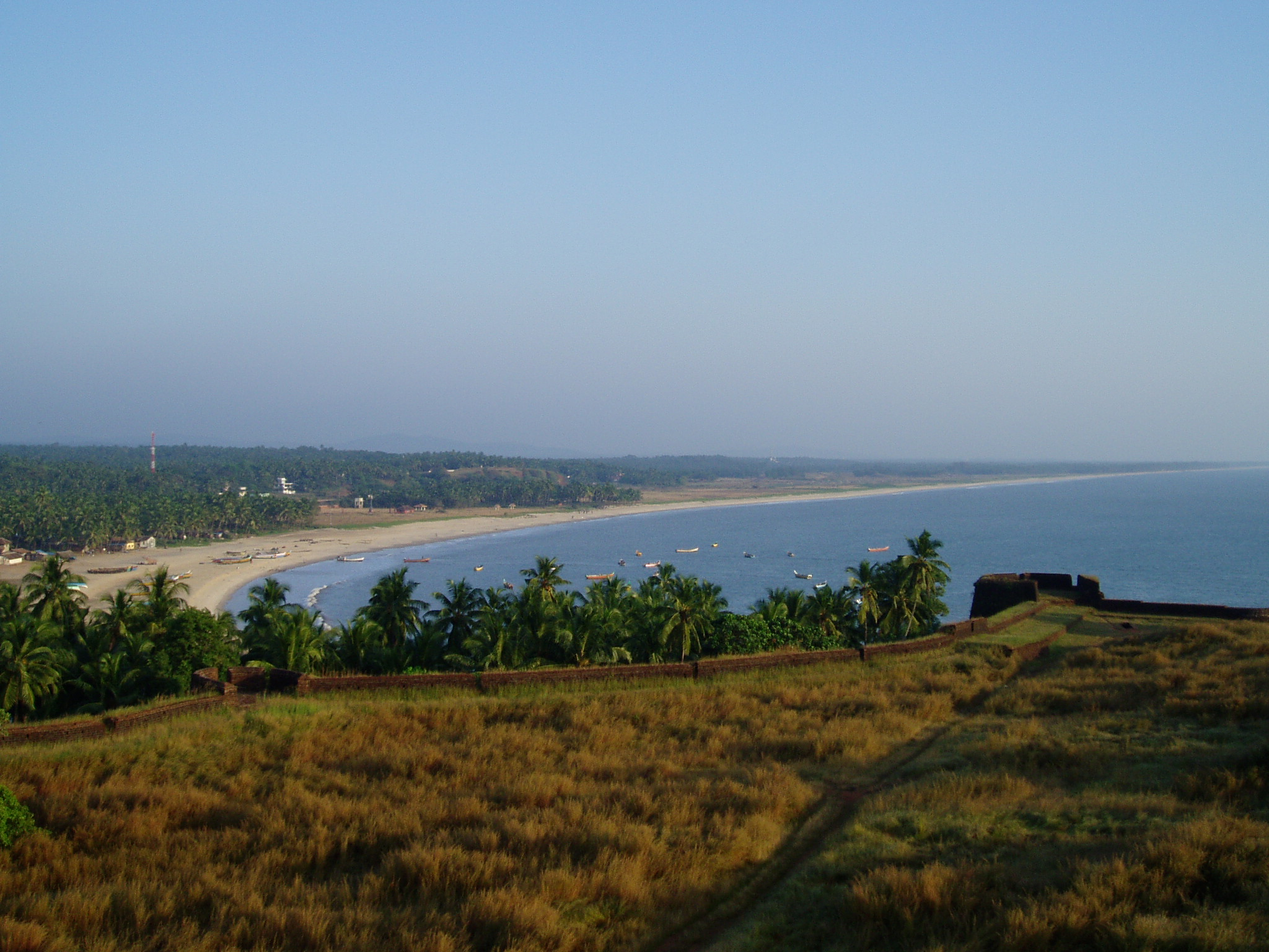 Bakel fort in the evening hours (before sunset)